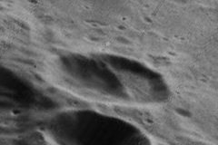 Oblique view of M. Anderson, on the far side of the moon, facing west.